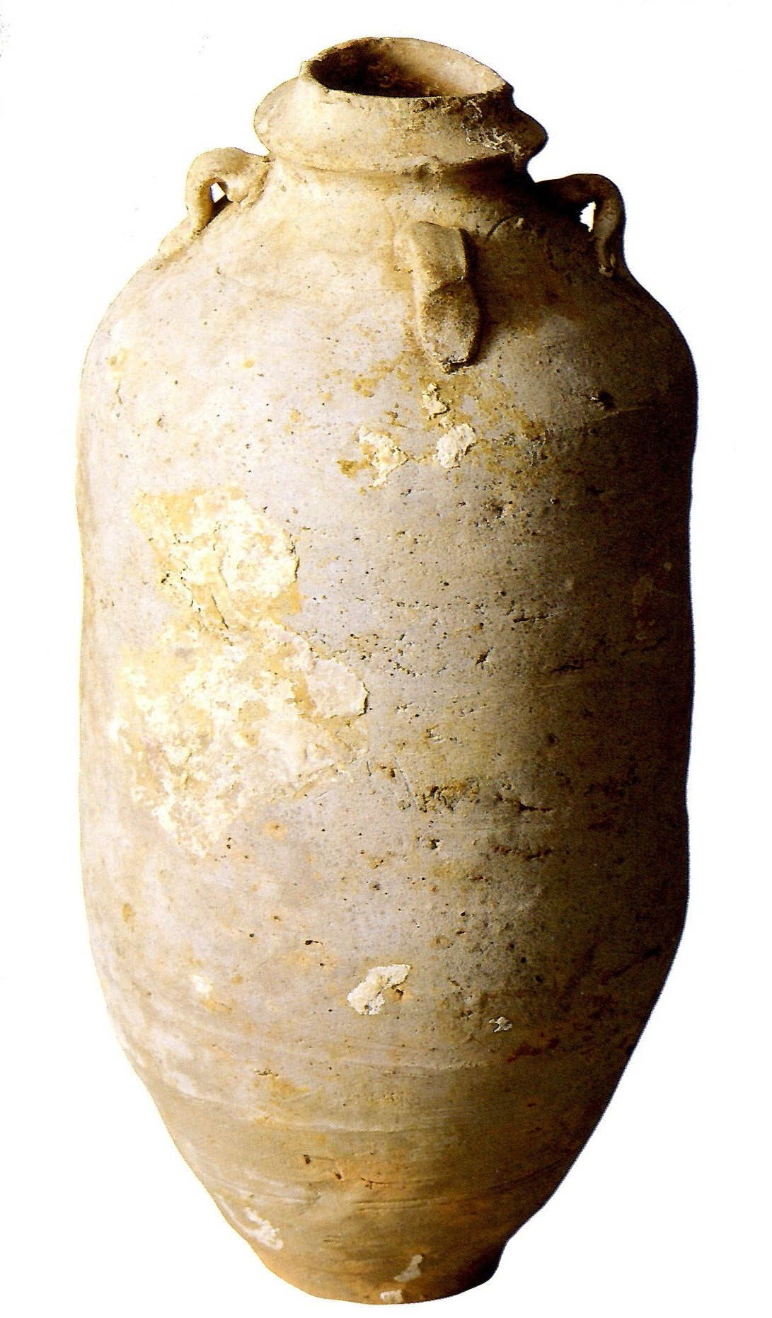 The jar of a Mongolian army